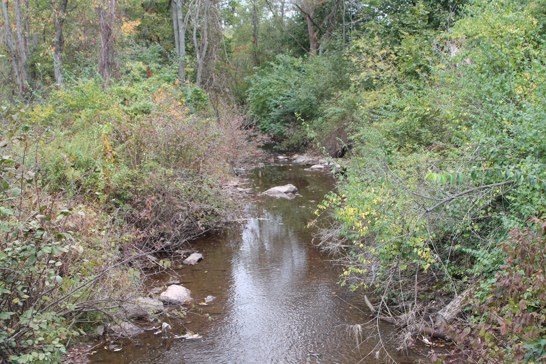 Little Catawissa Creek from the Schuylkill County Bridge No. 95, looking downstream